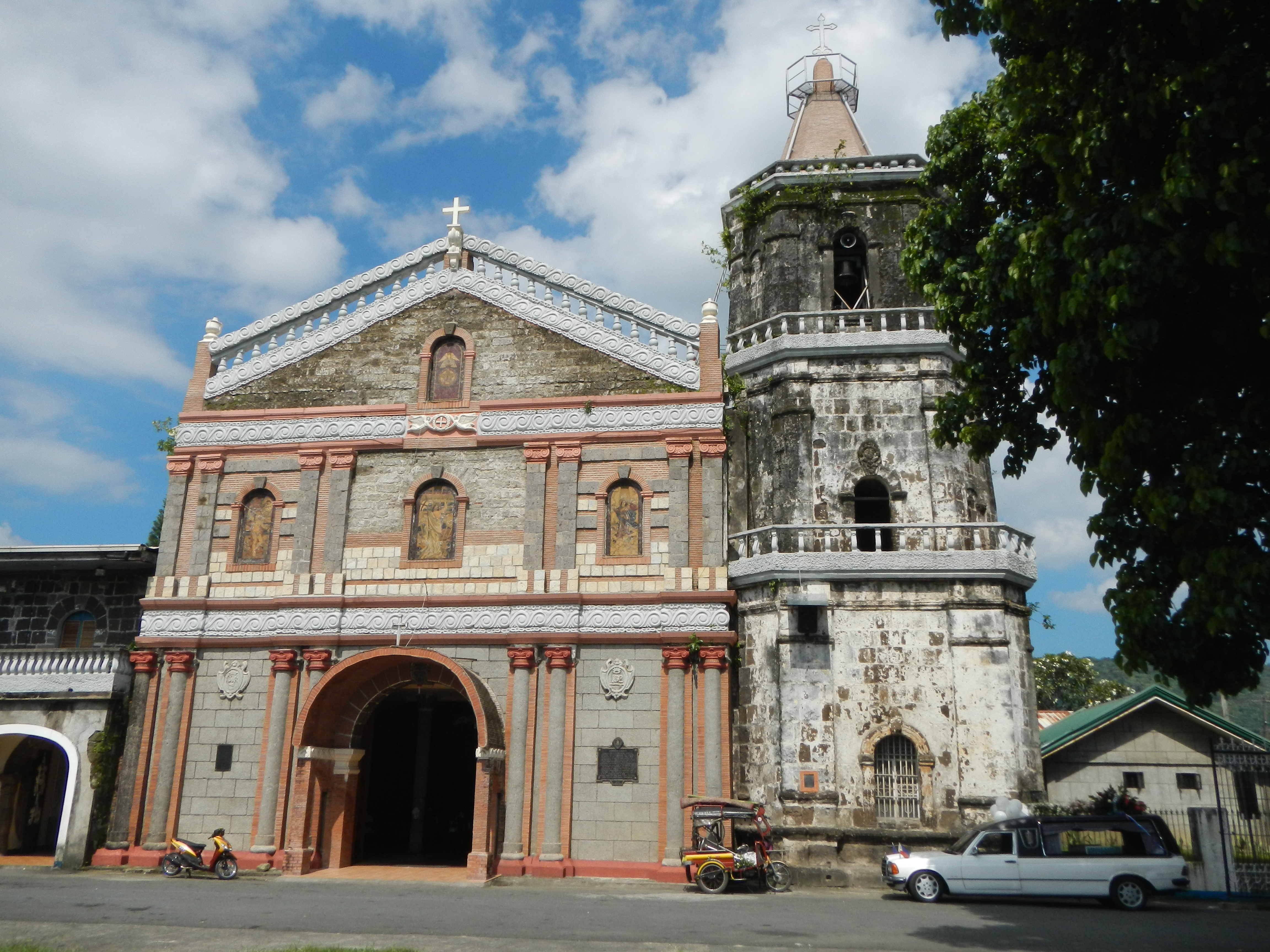 UploadWizard photos --- (general description) of (landmarks, heritage, culture, comprehensive, photography) of --- the --- Poblacion, Lumban Plaza, the --1578 Chuch of Lumbang, [1] Lumban, Laguna[2] -- Saint Sebastian the Martyr Parish Church of Lumban[3] (In 1578 the first Church was built by Father Juan de Plasencia destroyed by Fire; 1889 the Church was restored by Father Manuel Rodriguez. 14° 17.843N 121° 27.547E along the bank of the Lumban River drains out to Laguna Lake. Episcopal District IV [4] -- Roman Catholic Diocese of San Pablo [5] [6] [7] [8] [9] Poblacion, Lumban 4014 Laguna, Philippines Feast day: January 20 Parish Priest: Father Ricardo B. Basquiñez, MFParochial Vicar: Father Judah Ben-hur S. Pigon, MF Episcopal Vicar: Father Leandro L. Bariring, Jr. VICARIATE OF OUR LADY OF GUADALUPE Vicar Forane: Father Noel C. Artillaga.) -- & --- Lumban Municipal Hall (Lumban proper) [10] Coordinates: 14°17'49"N 121°27'33"E [11] [12] Coordinates: 14°17'20"N 121°32'42"E (caliraya springs) -- Lumban, Laguna[13] & --- – Lumban,_Laguna - the Lumban Bridge (BO2469LZ STA.93+880 at Lumban-Caliraya-Cavinti Road[14] -2 lane concrete and steel bridge over the Lumban River connecting all eastern towns of Laguna Coordinates: 14°17'30"N 121°27'34"E [15] is geographically located at latitude(14.2905 degrees) 14° 17' 25" North of the Equator and longitude (121.4582 degrees) 121° 27' 29" East of the Prime Meridian on the Map of the world.[16] Lumban River flows through the towns of Lumban, Pagsanjan, and Cavinti also referred the Pagsanjan-Lumban River) & Lumban River (part of Bumbungan River[17] (originates from the Sierra Madre Mountains, in the highlands of Cavinti town, flowing through the town of Pagsanjan and ending in Lumban where it drains to Laguna de Bay)